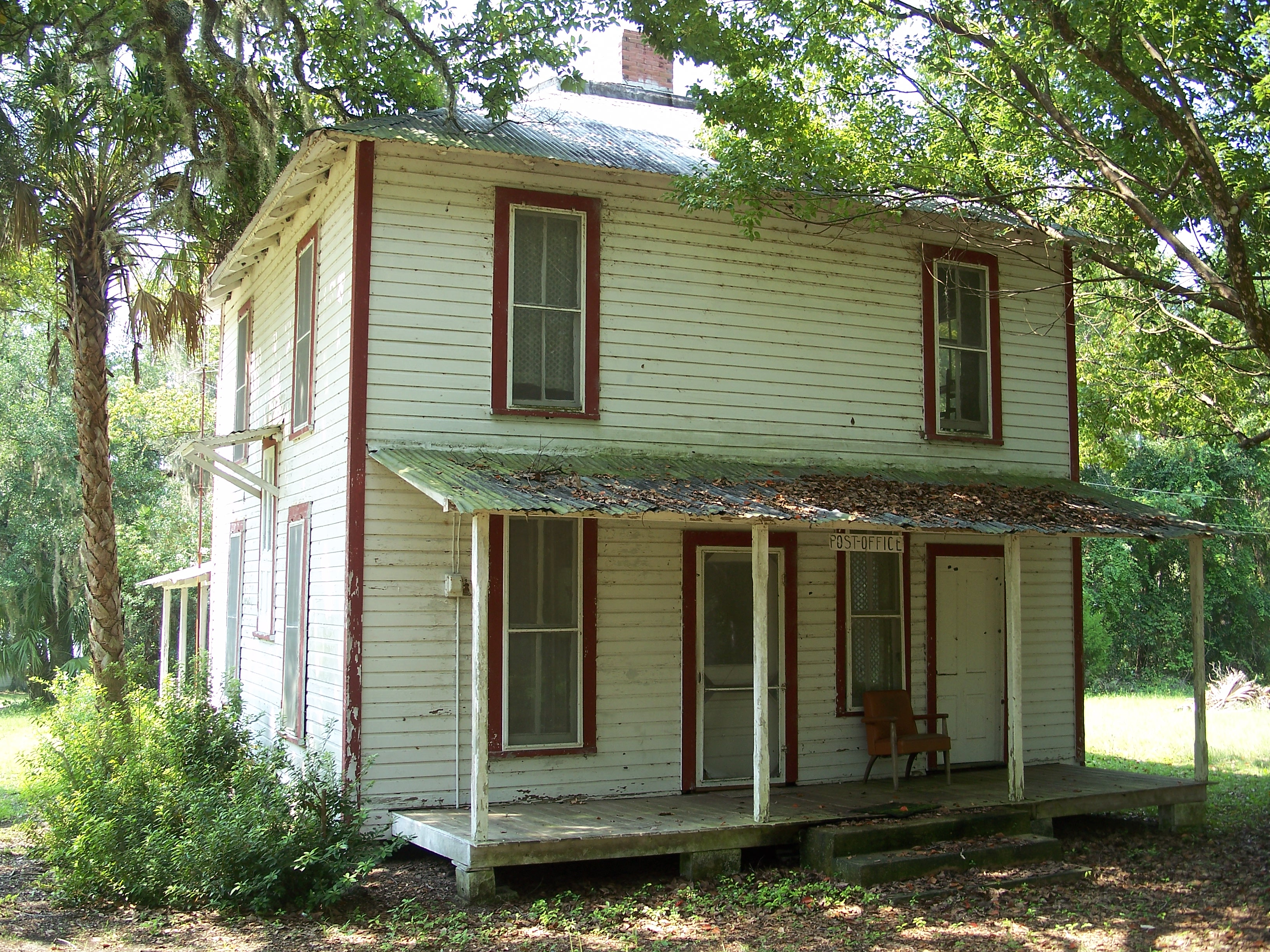 Old post office in the Kerr City Historic District, near Fort McCoy, Florida